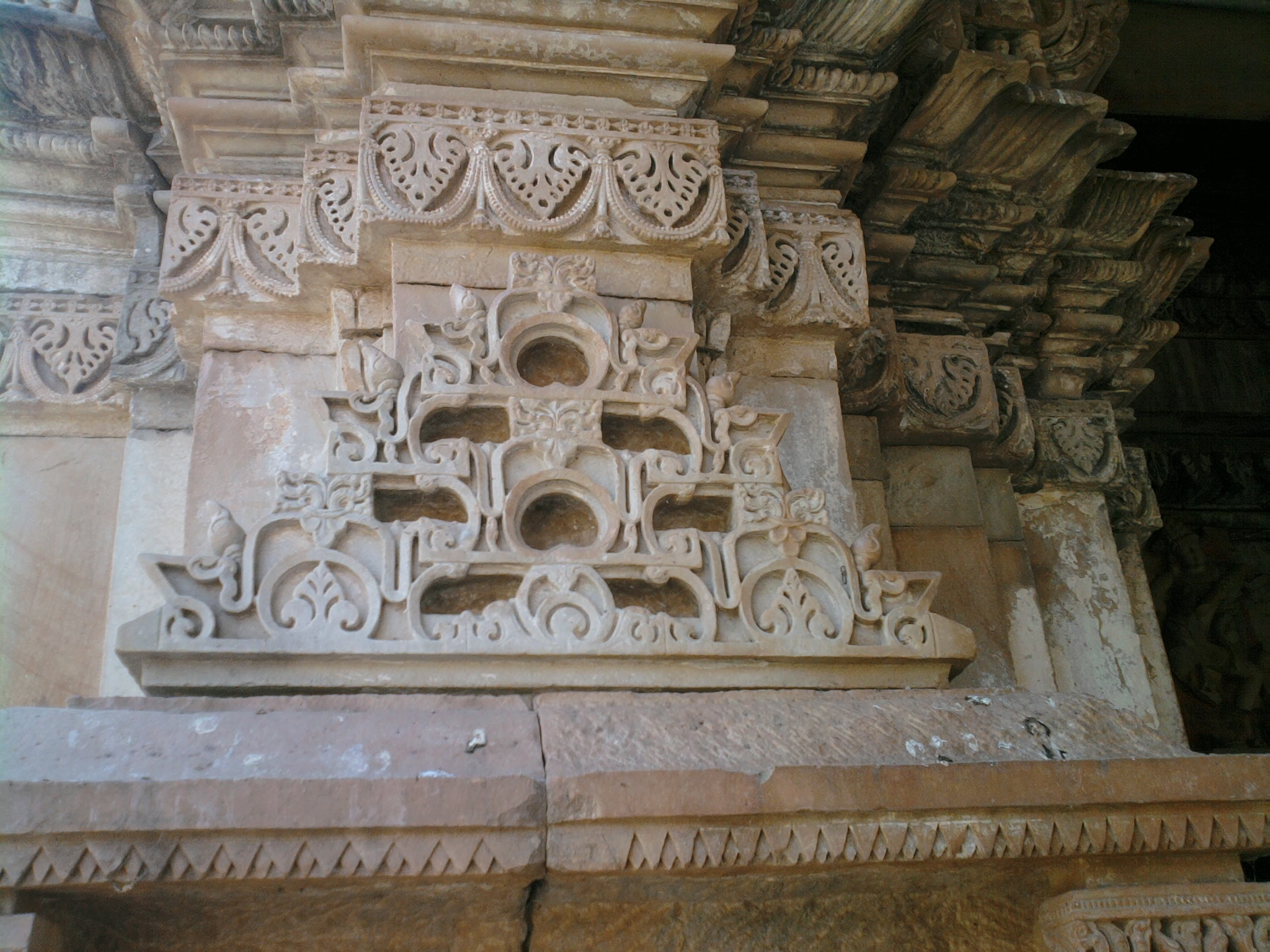 Baroli Temples at nearby Baroli village are one of the oldest temple complexes (9th century AD) in Rajasthan. The chief architect of the Baroli temples was from Orissa